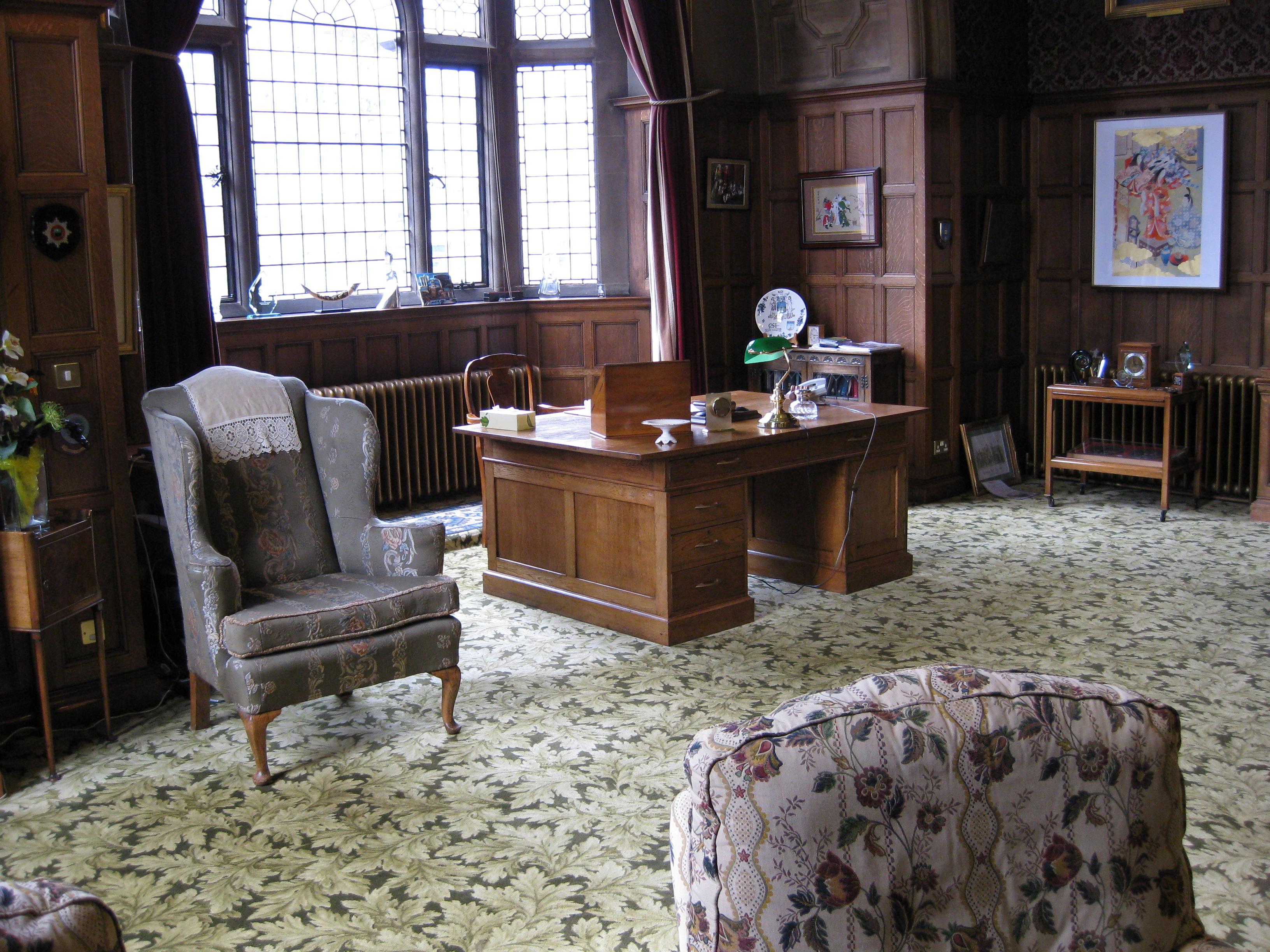 Lord Mayor's Parlour with partners desk, Sheffield Town Hall.